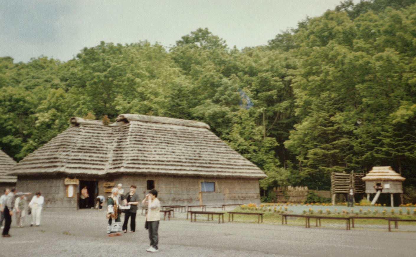 Traditional Ainu house, Ainu Museum, City of Shiraoi, Hokkaido, Japan.